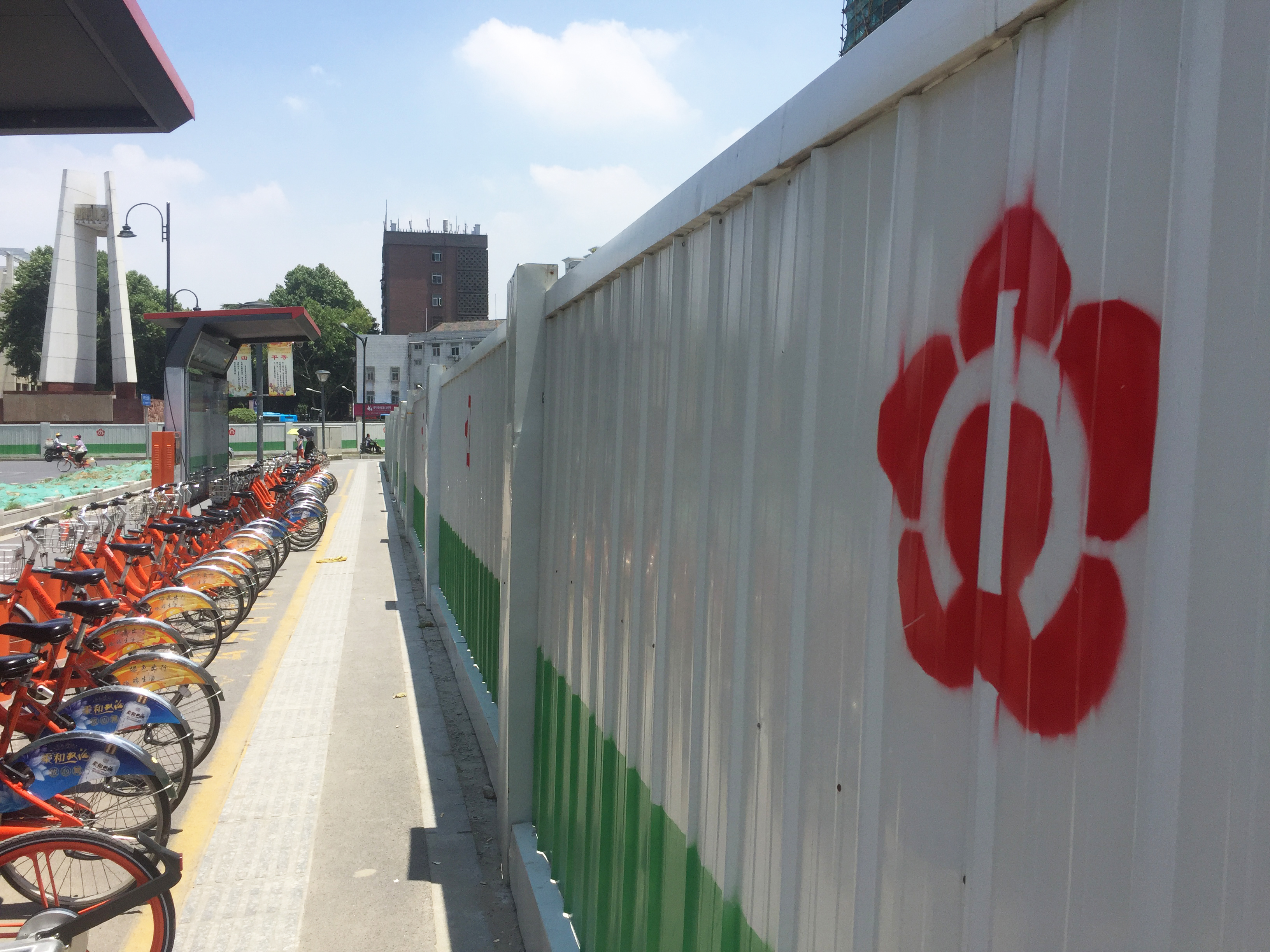 Hoardings in place around the construction site for Xiaguan station on Nanjing's Metro Line 5 planned to open in 2020.